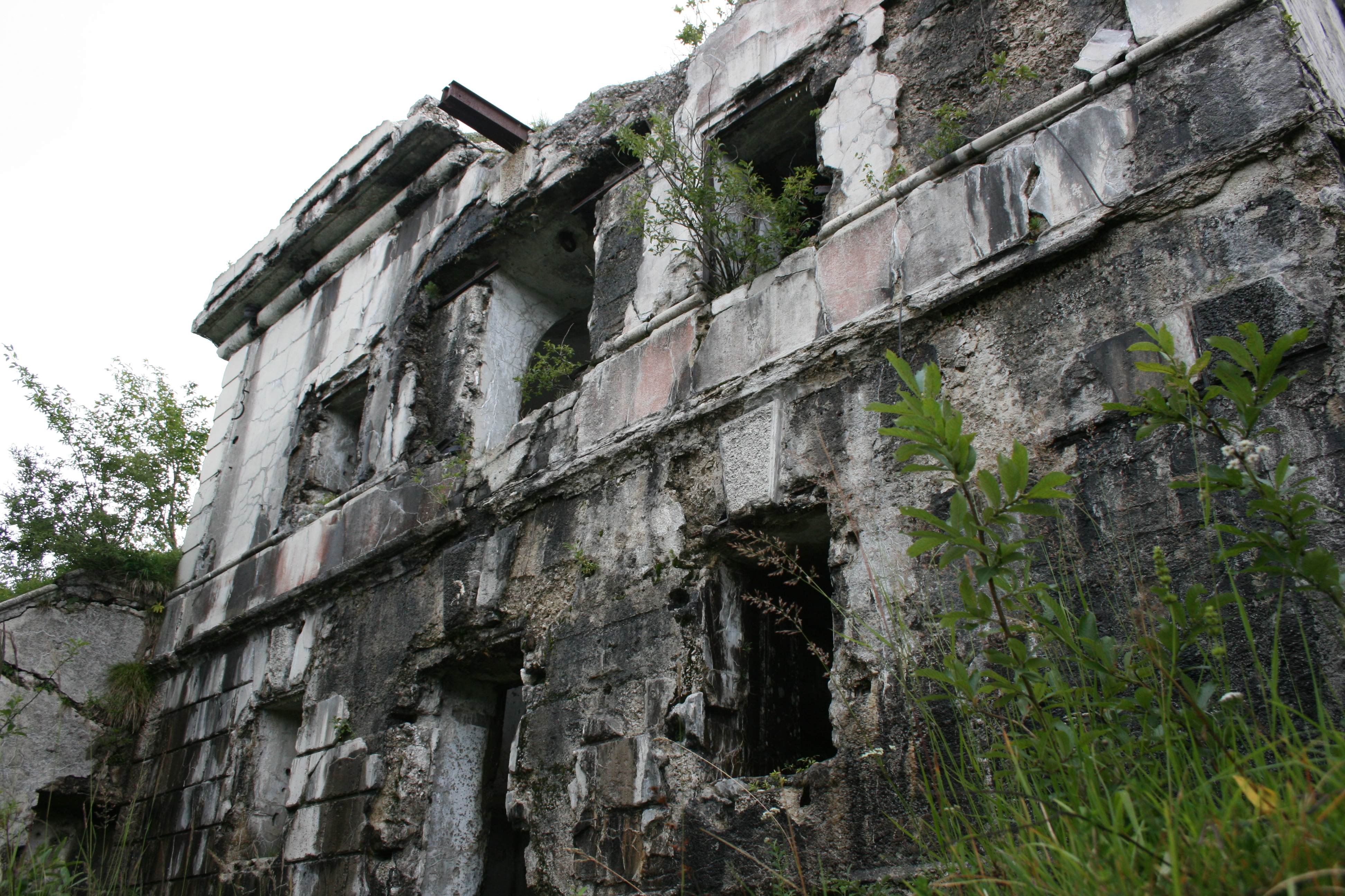 Forte di Cima Ora